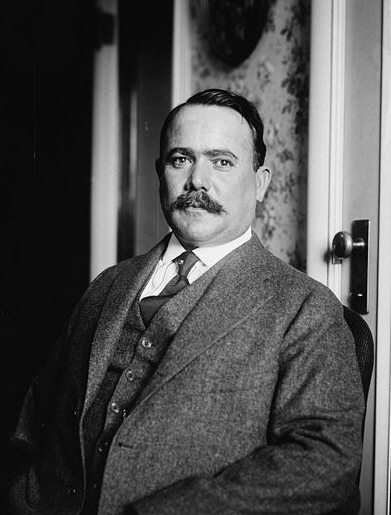 Álvaro Obregón, former President of Mexico (1920 - 1924).